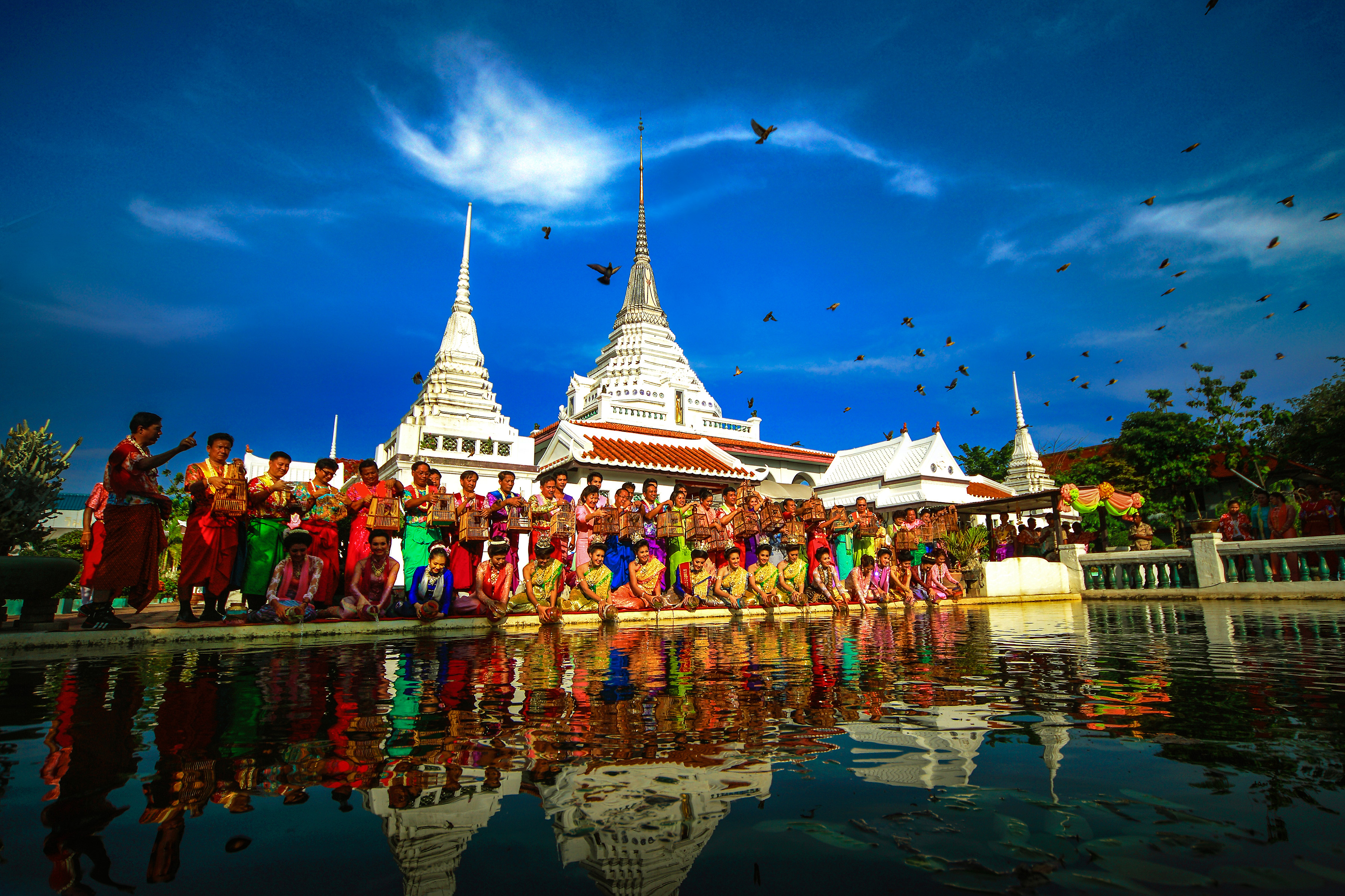 Wat Prot Ket Chettharam